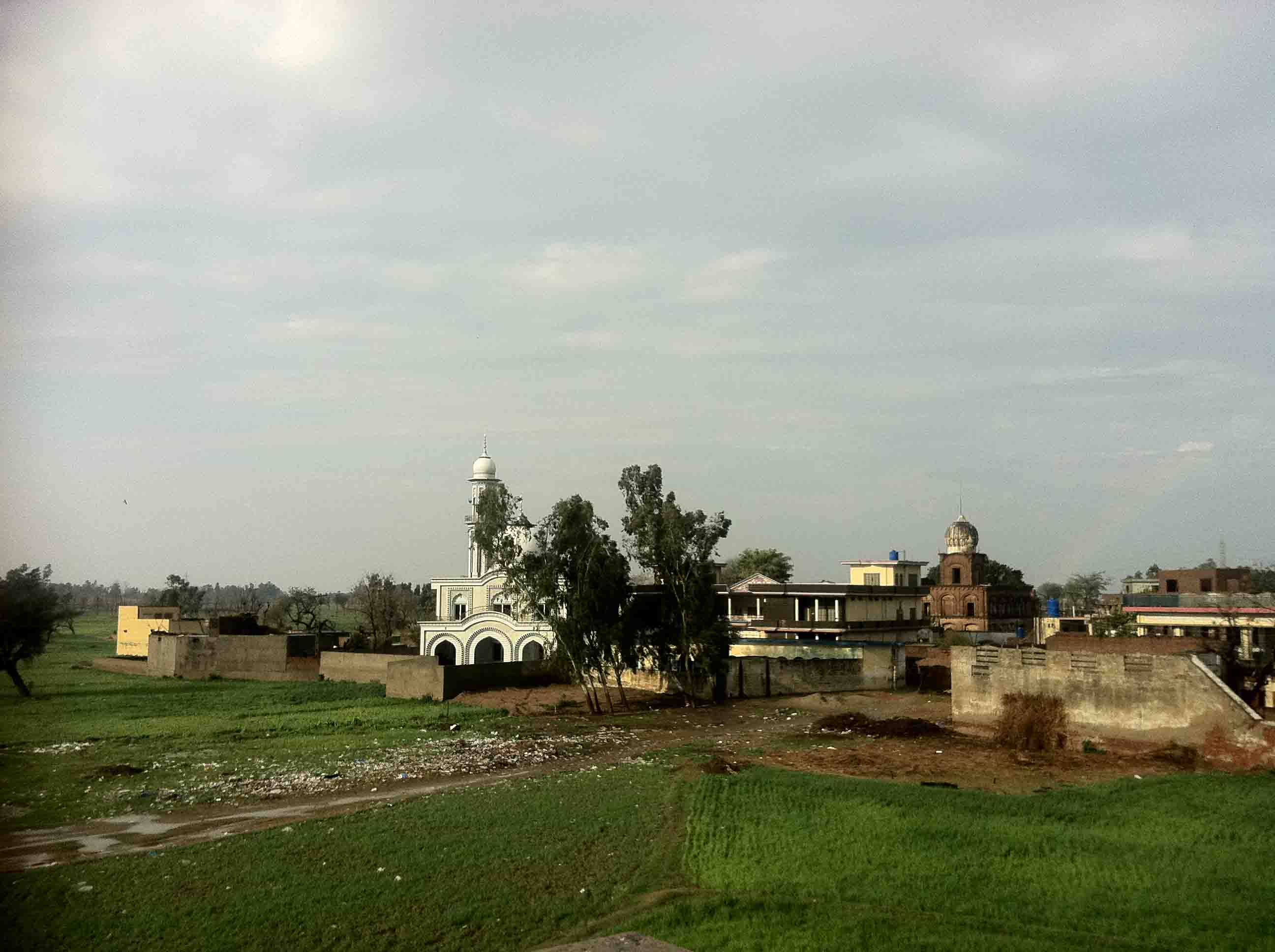 The main importance of this mosque the presence of Holly Hairs Of Prophet Muhammad PBUH